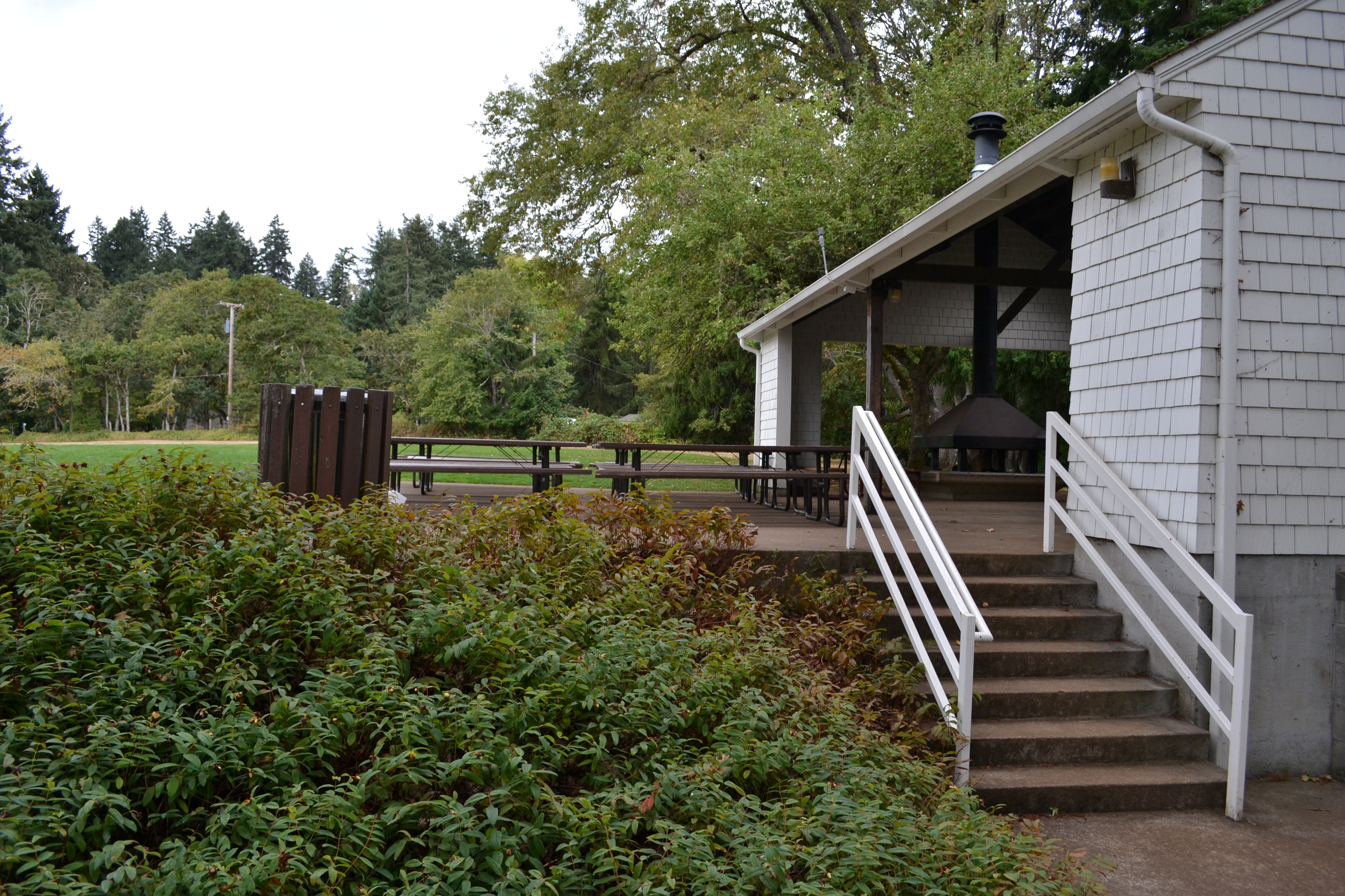 Wayne Morse Family Farm event area, Eugene, Oregon, United States. This picnic shelter, although located on the historic farm and designed by the same architect, did not exist during the farm's historic period and is not a contributing historic feature of the farm.